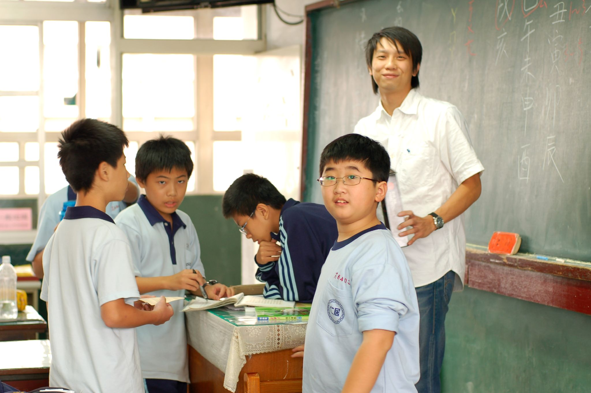 The Chinese teacher and his students in Taichung Municipal Chu-Jen Junior High School.